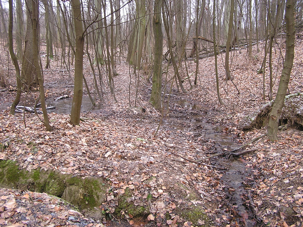 Spring of the Seulbach